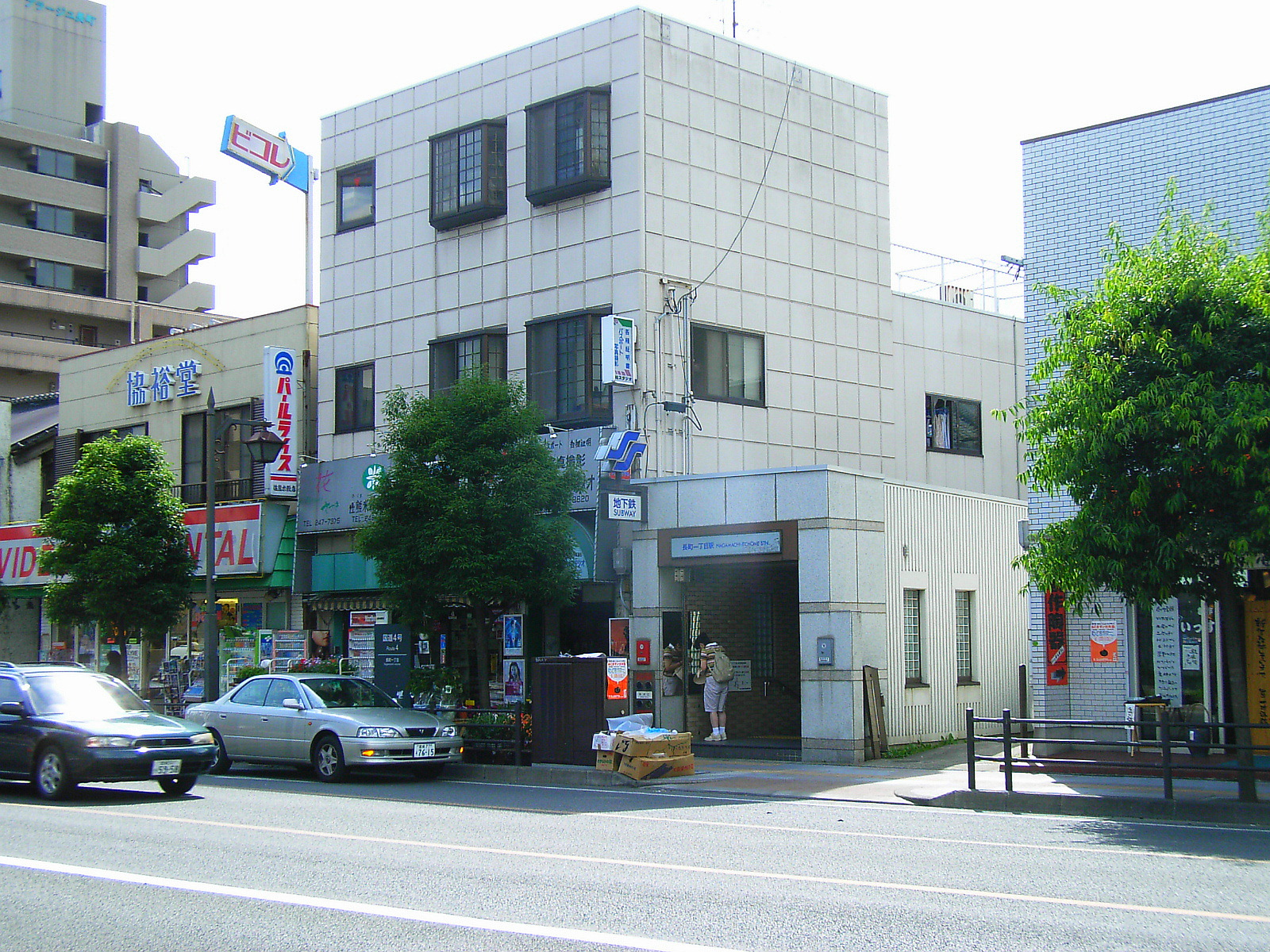 Nagamachi-itchōme Station of the Sendai Subway. Sendai, Miyagi prefecture, Japan.